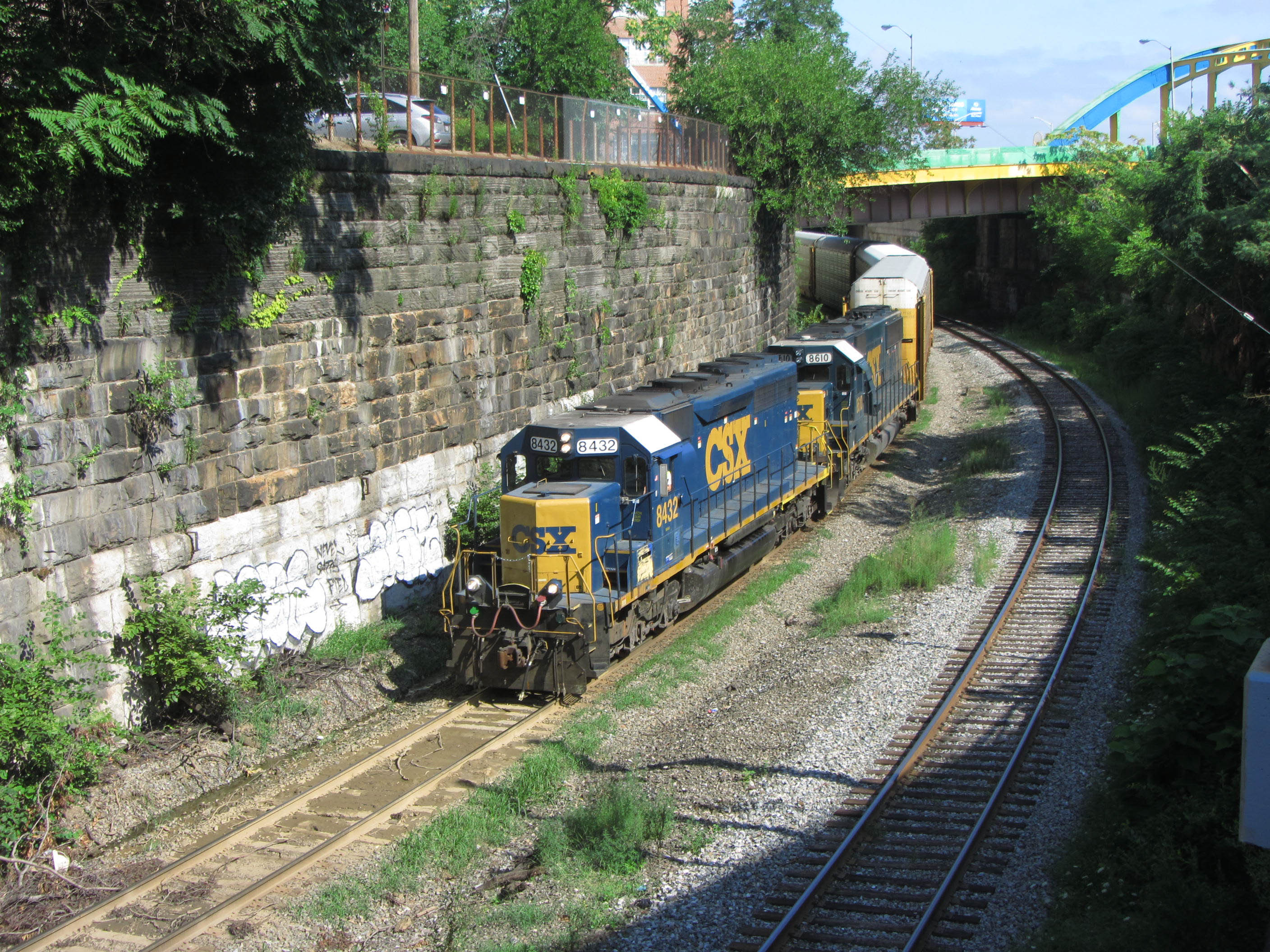 20120729 31 CSX Railroad, Baltimore, Maryland-2